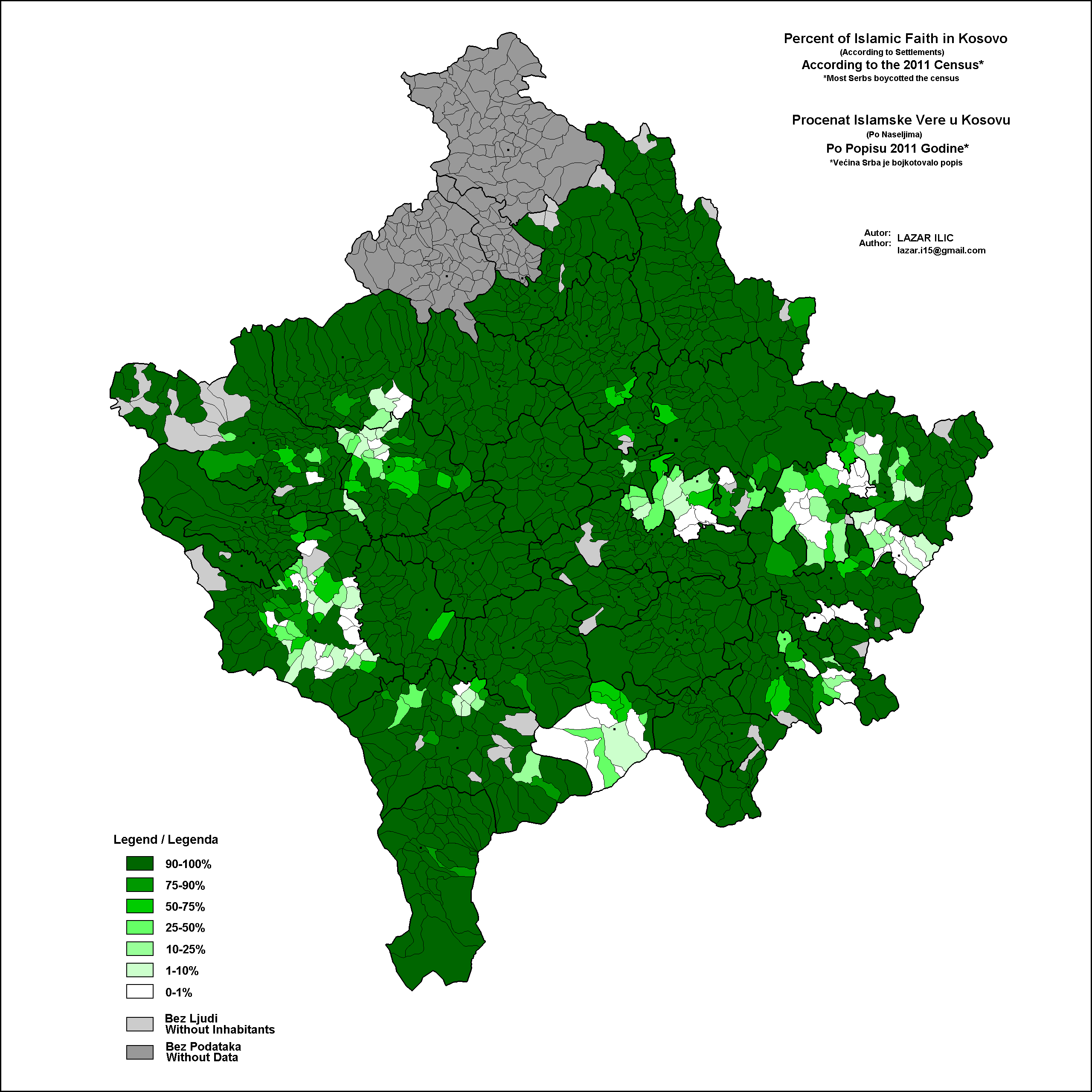 This map shows the percent of Islamic faith in Kosovo, according to the 2011 census which most orthodox people boycotted.